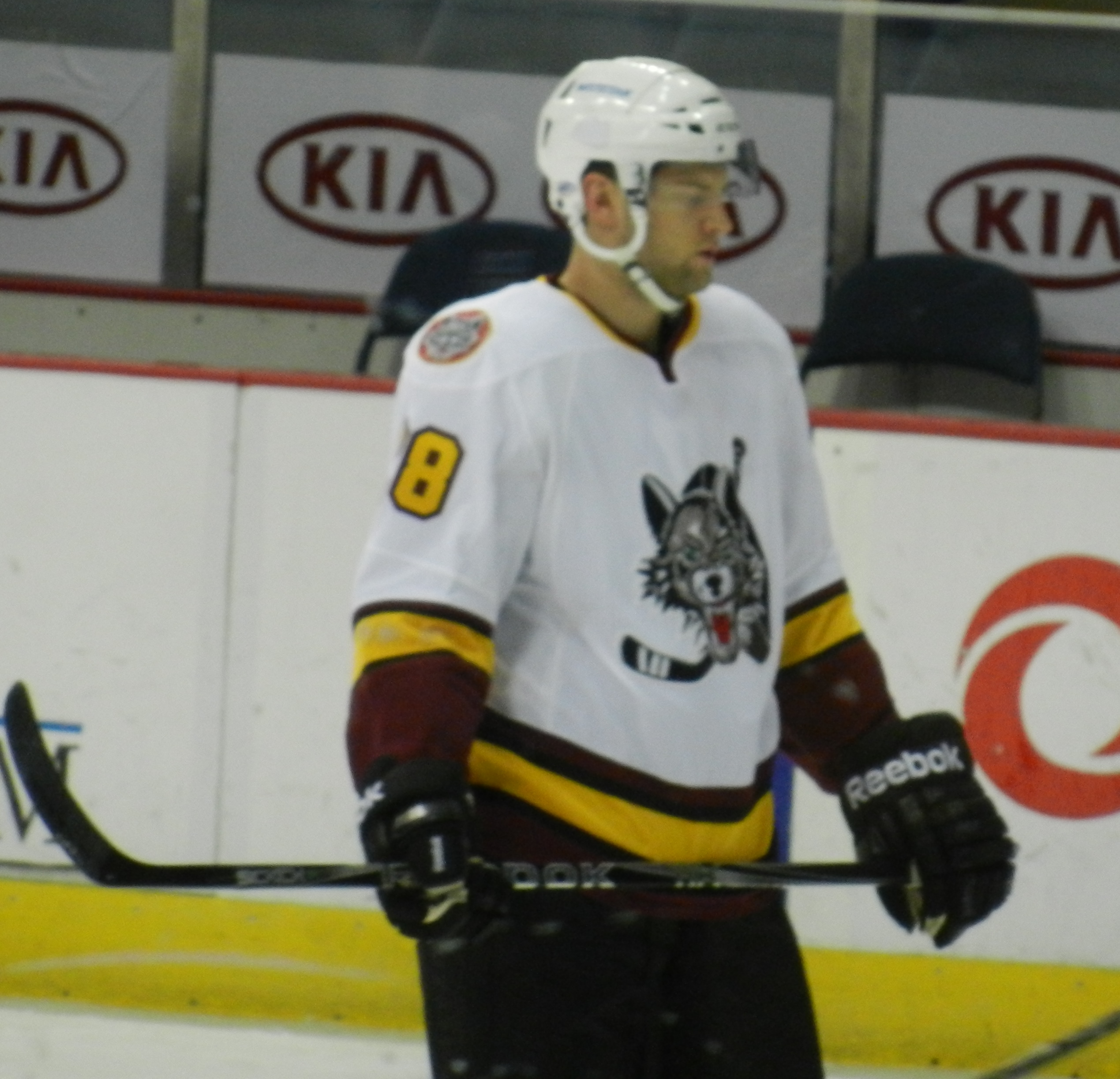 Stefan Schneider playing for the Chicago Wolves during the 2011-12 AHL season